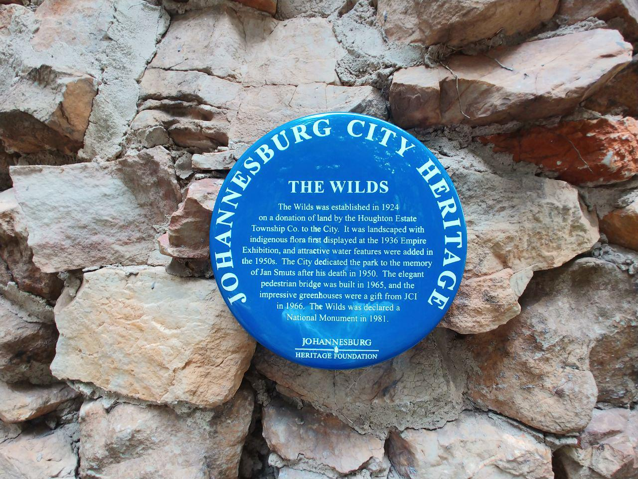 Public notice recognising The Wilds as a Johannesburg City Heritage site